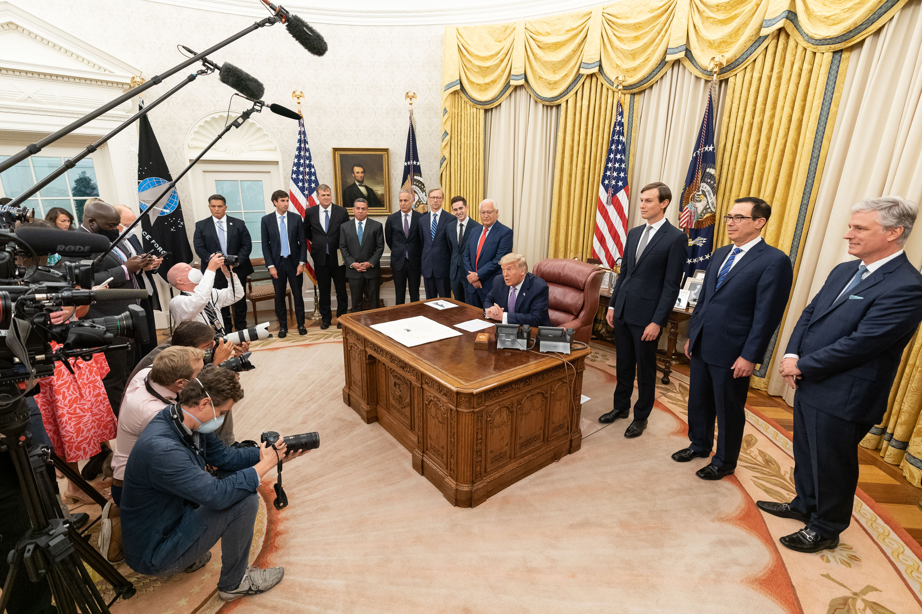 President Donald J. Trump, joined by White House senior staff members, delivers a statement announcing the agreement of full normalization of relations between Israel and the United Arab Emirates Thursday, Aug. 13, 2020, in the Oval Office of the White House. (Official White House Photo by Joyce N. Boghosian)